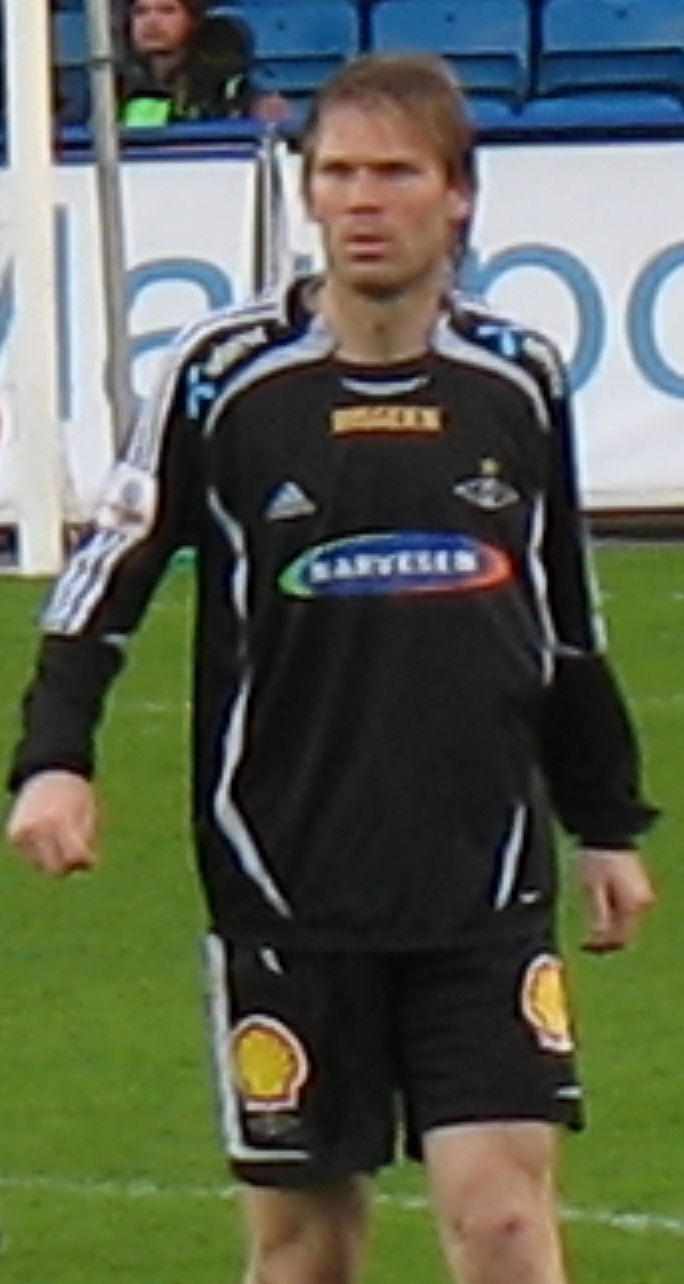 Norwegian footballer Bjørn Tore Kvarme.